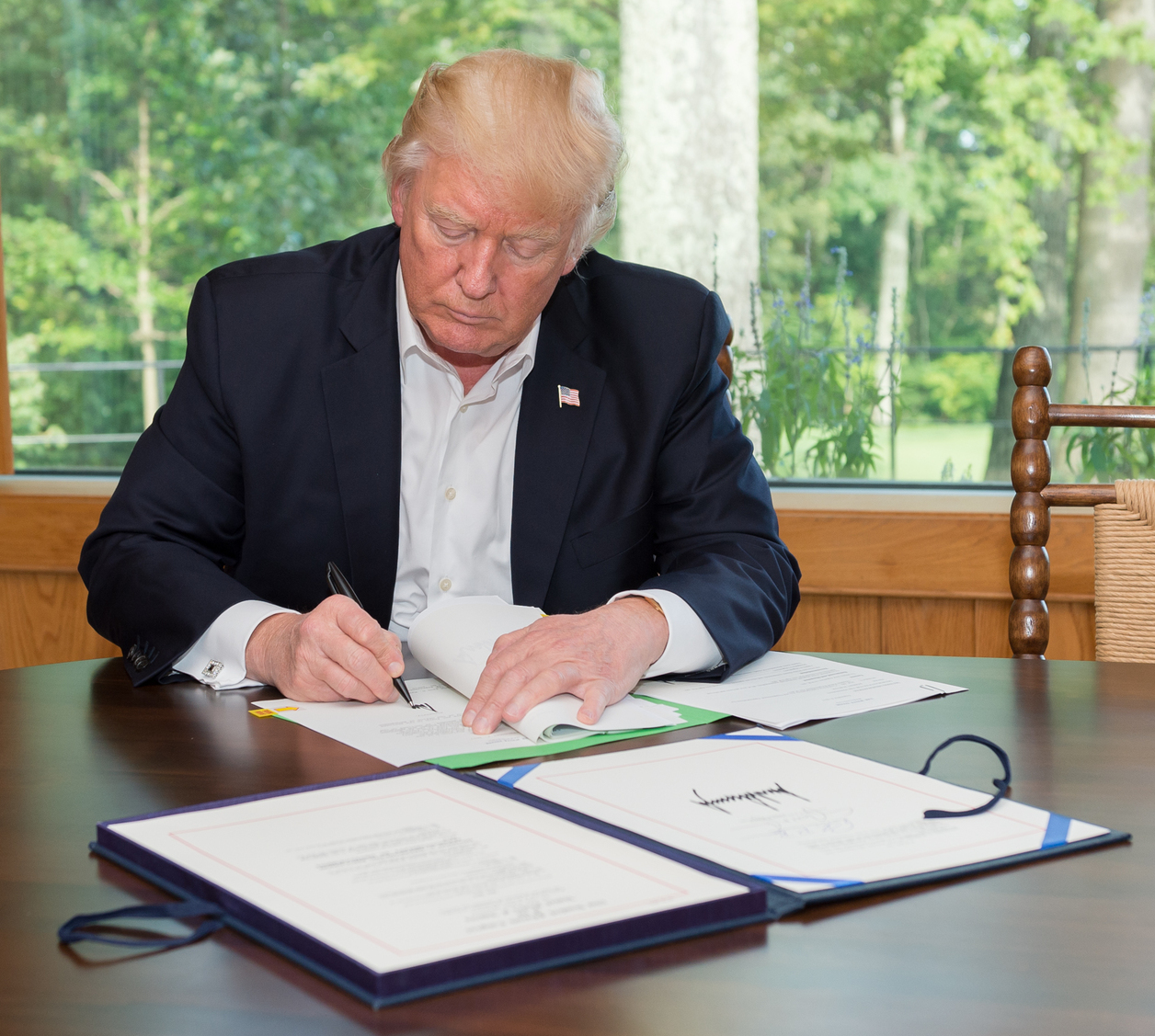 President Donald Trump signs the Hurricane Harvey Funding Bill into effect on September 8, 2017 while at Camp David for the weekend.